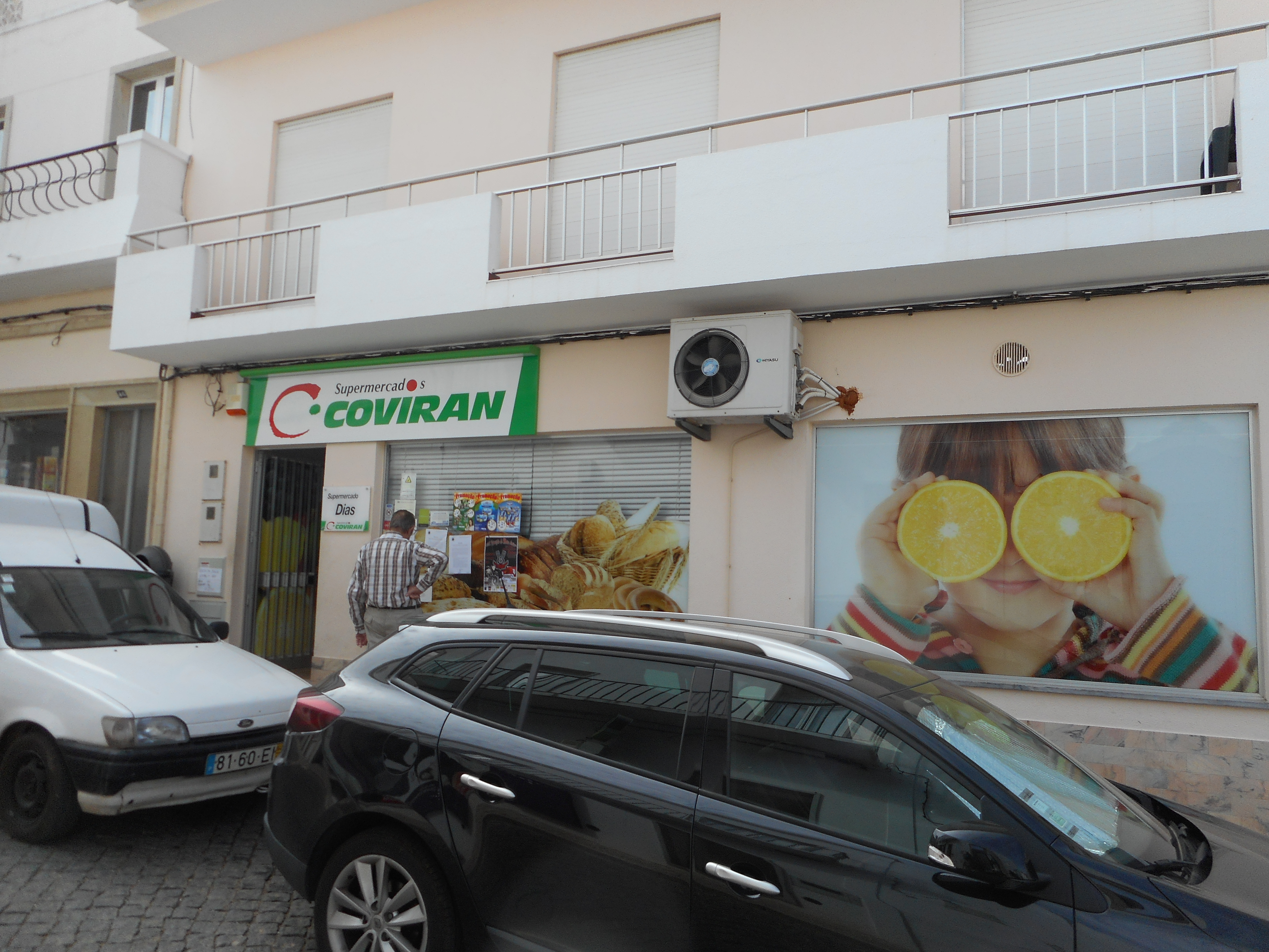 The Coviran Supermercados located in the Rua Miguel Bombarda, in the village of Paderne, Albufeira, Algarve, Portugal